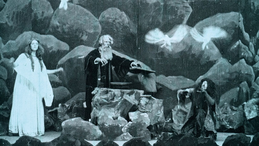 Screenshot of Miranda, Prospero and Caliban in 'The Tempest' directed by Percy Stow (1908)